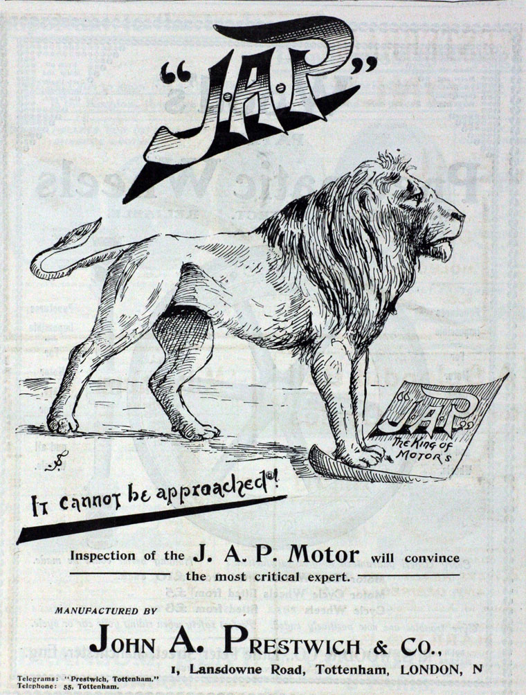 JA Prestwich motors advertisement